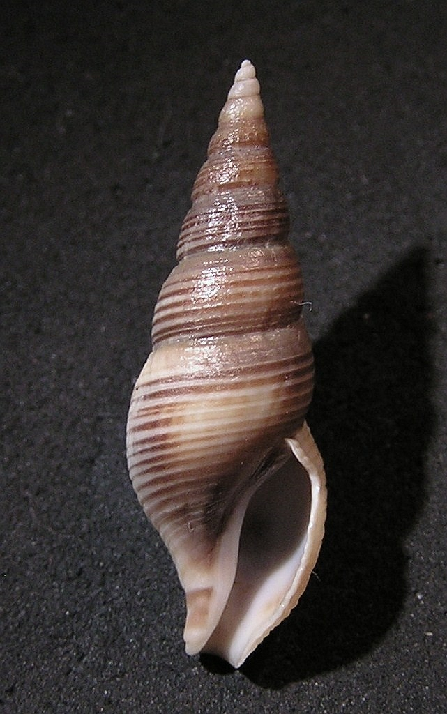 One color variety of Ophiodermella inermis (Reeve, 1843) ; Alaska